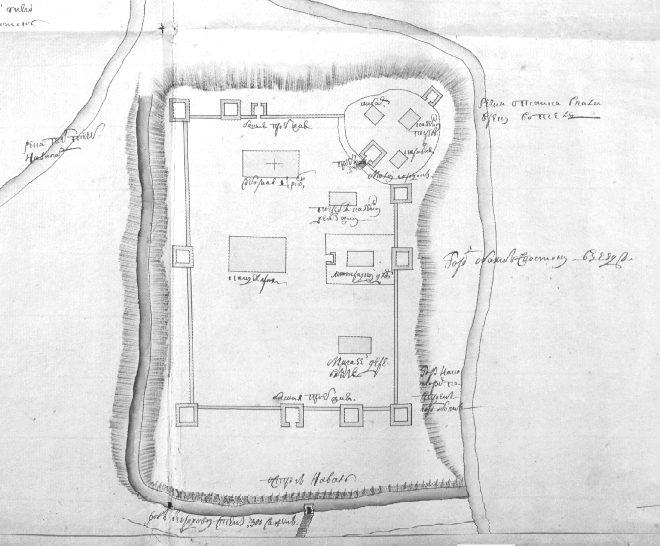 Fragment Oboyan fortress 1712